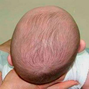 Plagiocephaly is one side flattening of the skull